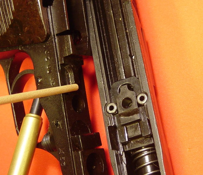 CZ-52 showing locking mechanism on frame and slide